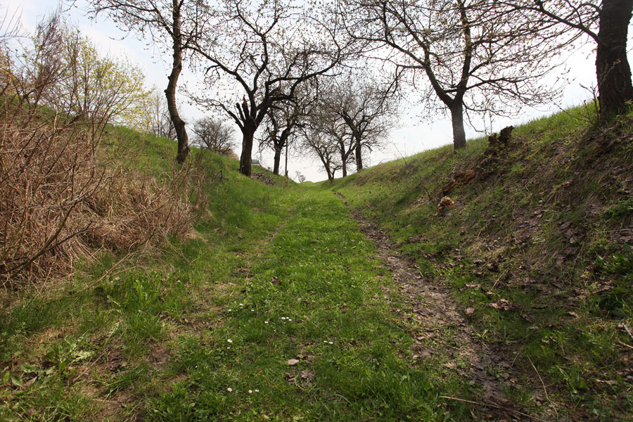 A sunken lane (also hollow way or holloway)